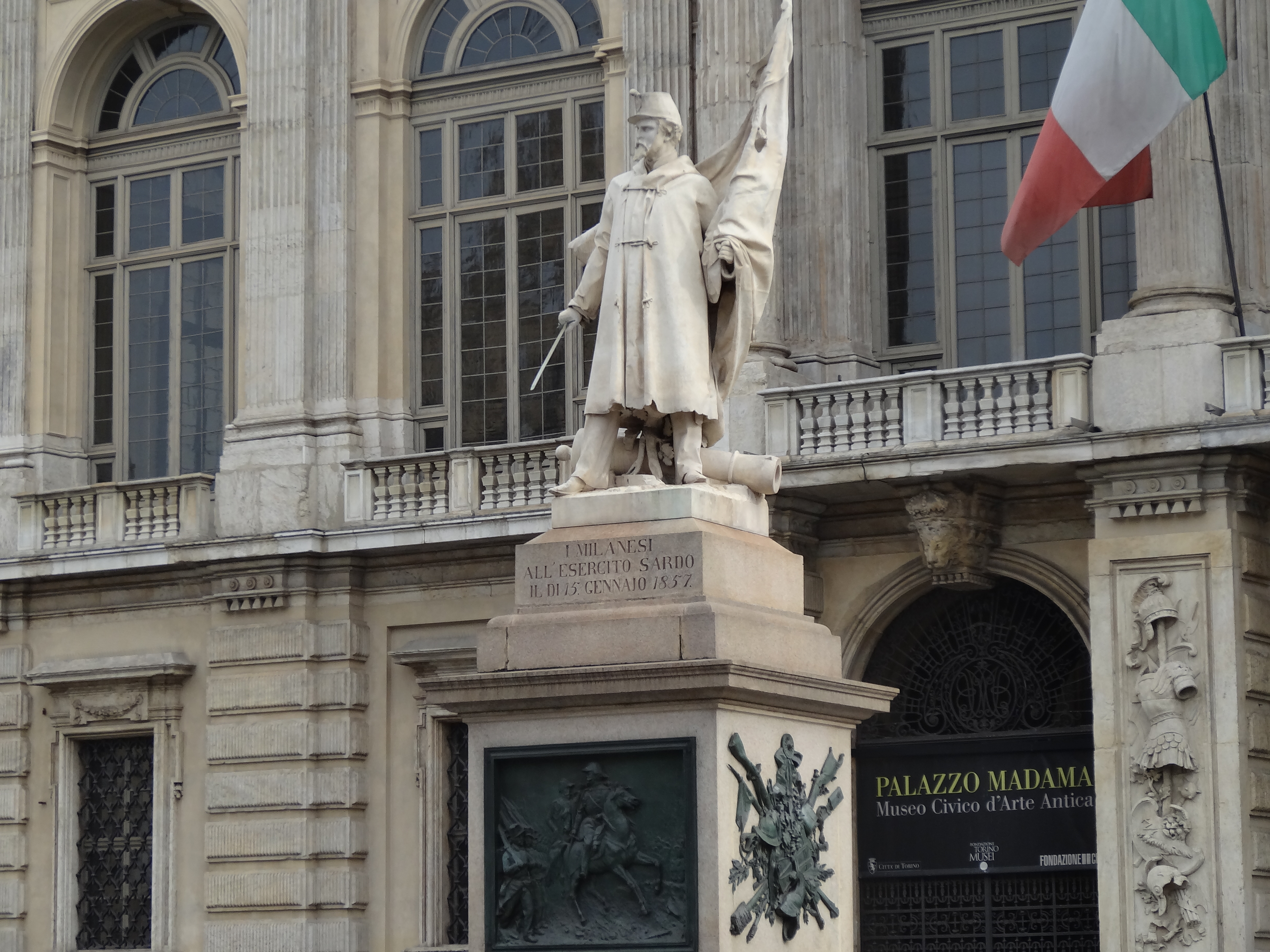 Torino